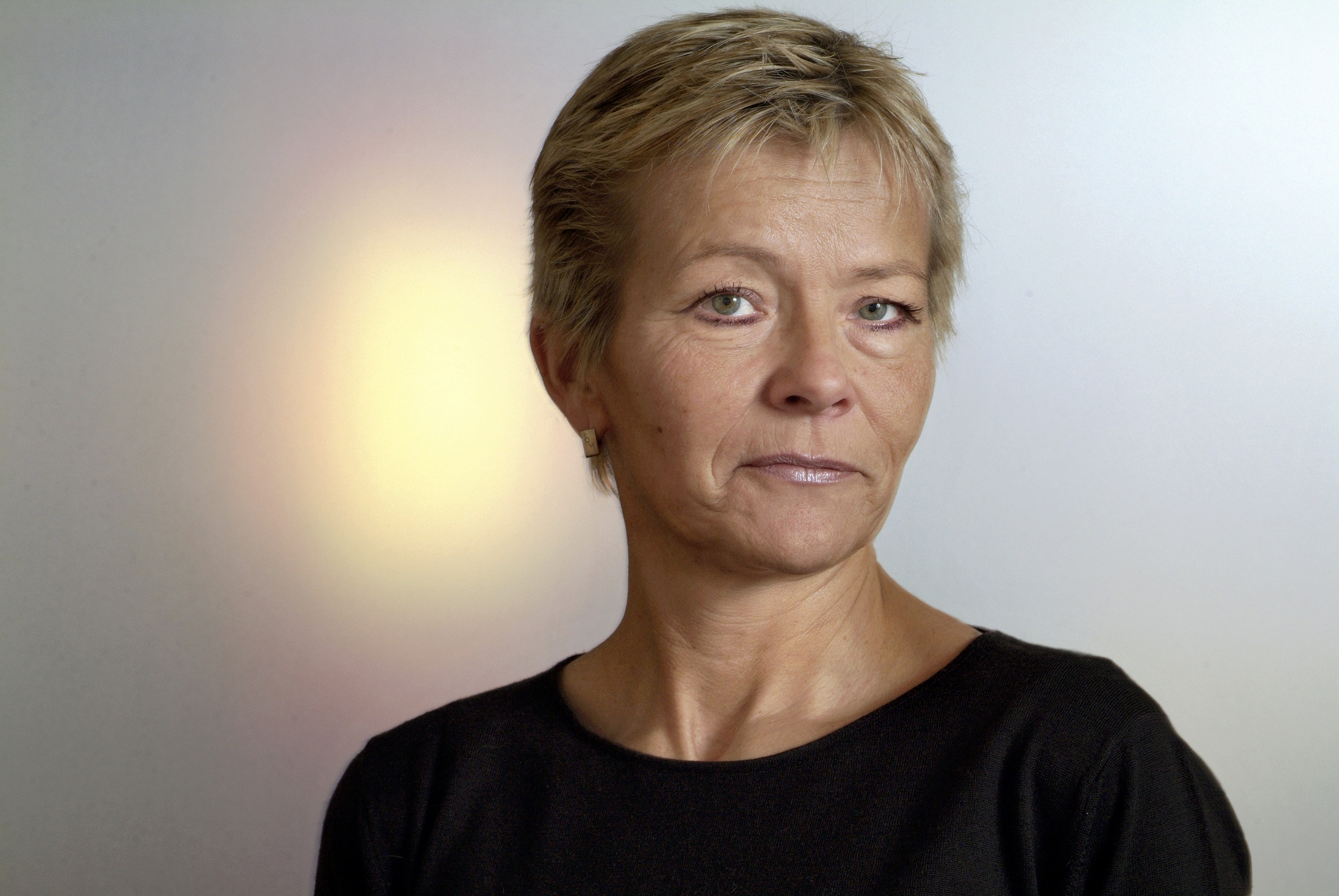 Secretary General, Norwegian People's Aid